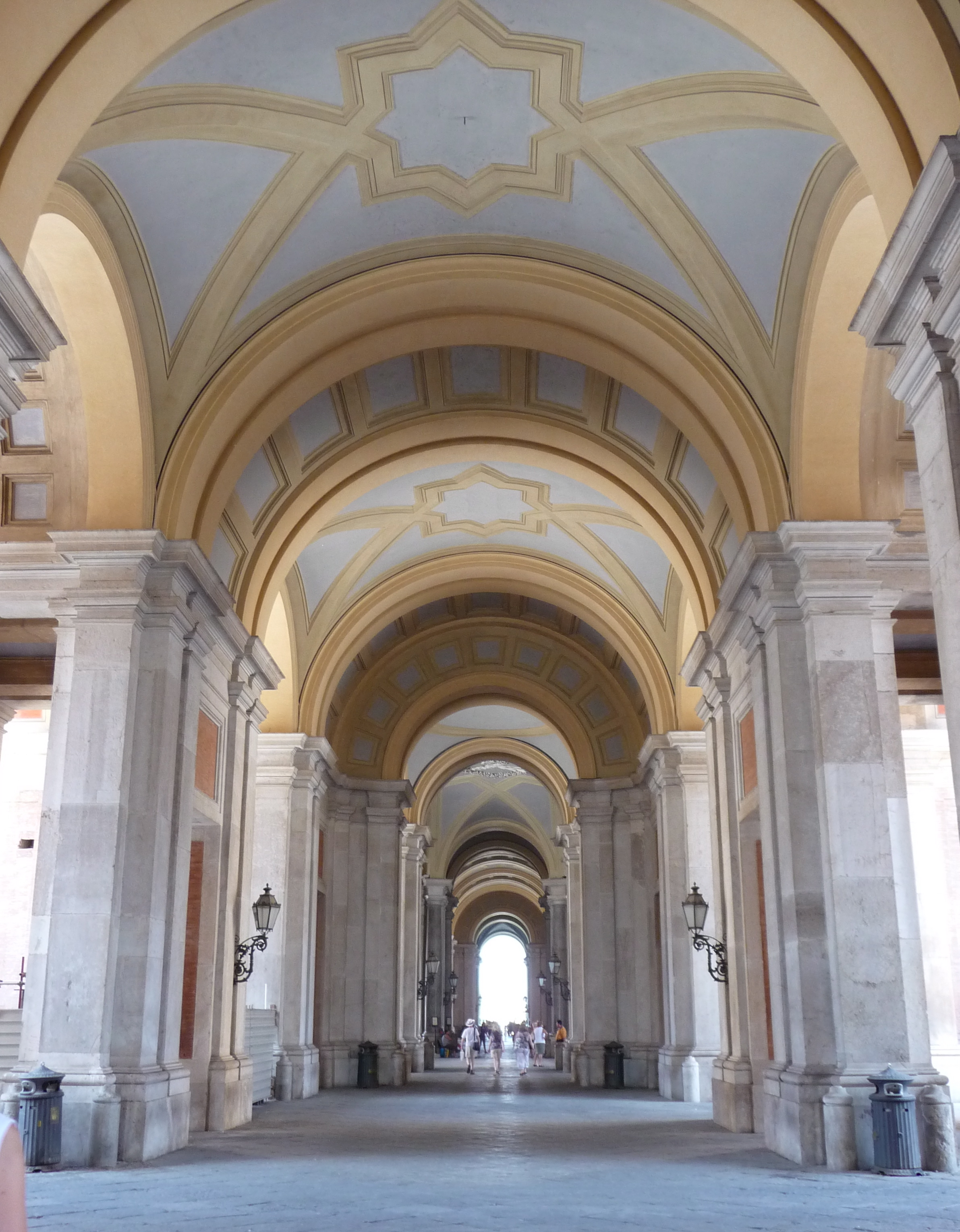 The Reggia of Caserta.